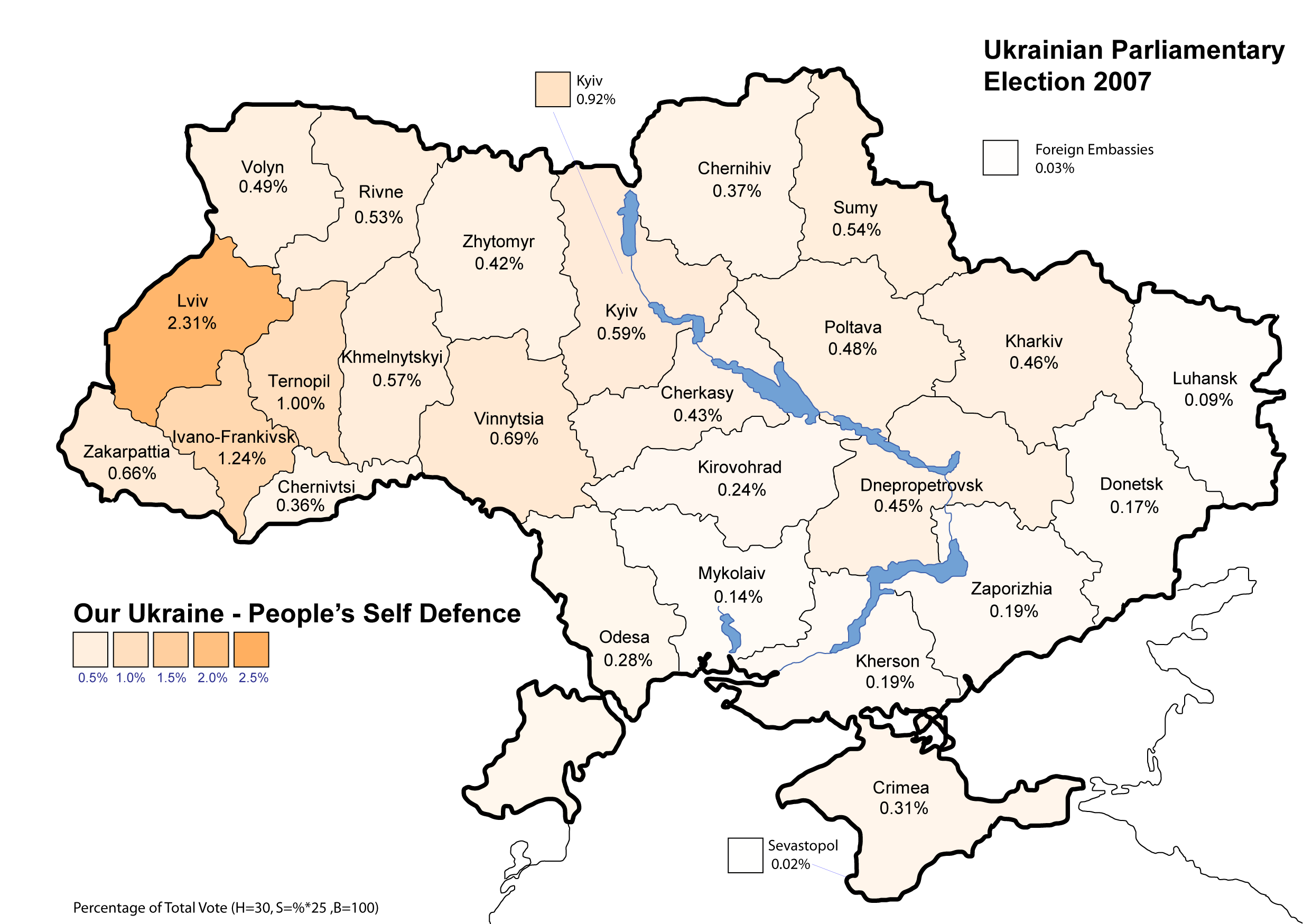 Ukrainian Parliamentary Election 2007 (OU-PSD) Percentage of total national vote (minimal text)